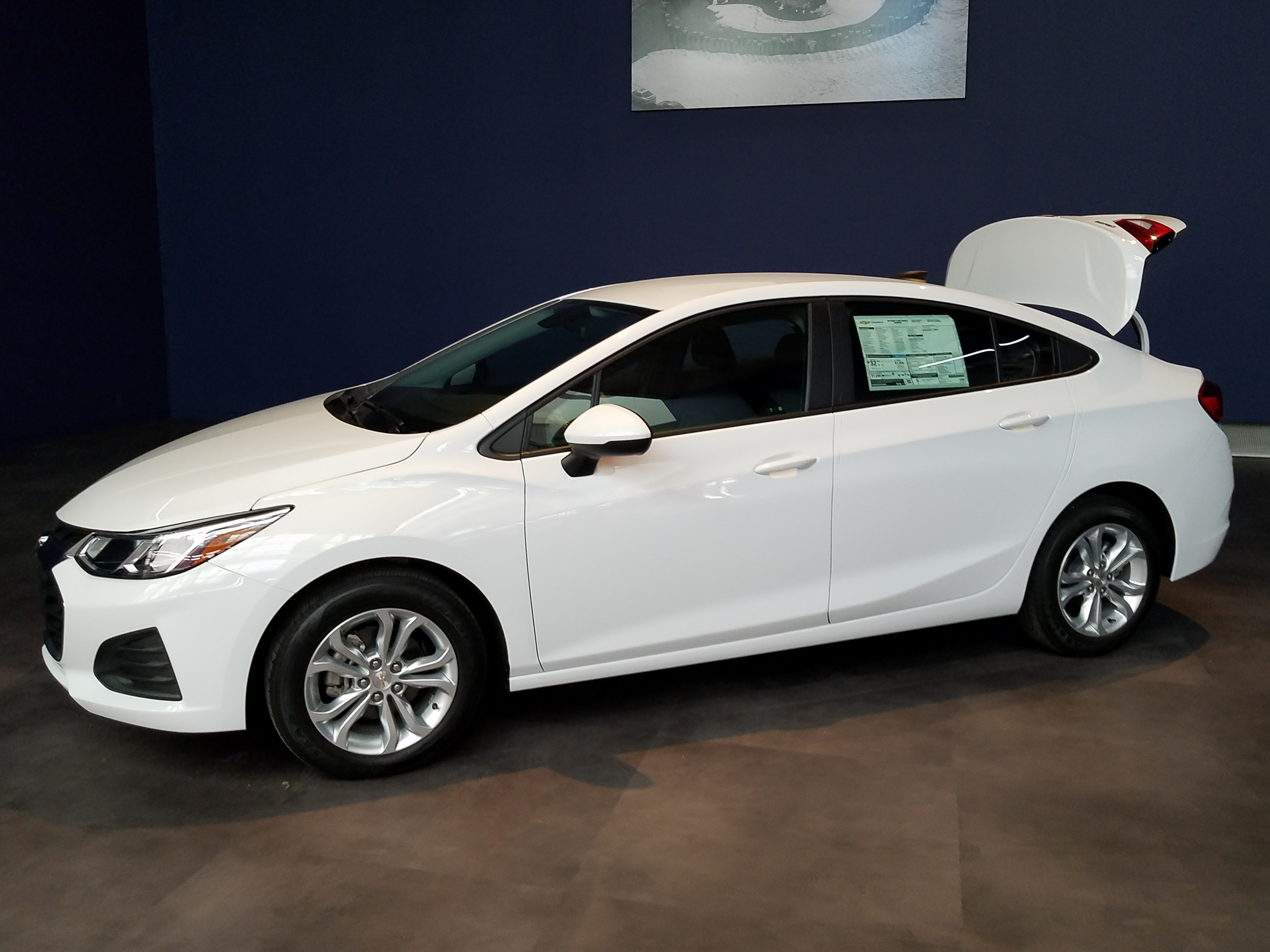 Shown here on loan during a special exhibit at the Wexner Center for the Arts in Columbus, this is the final Chevrolet Cruze built at the General Motors assembly plant in Lordstown, Ohio, USA. The VIN is 1G1BC5SM4K7153514 and it was purchased by a dealership in Northeast Ohio after originally being destined for Florida. It is an LS trim with Summit White paint.